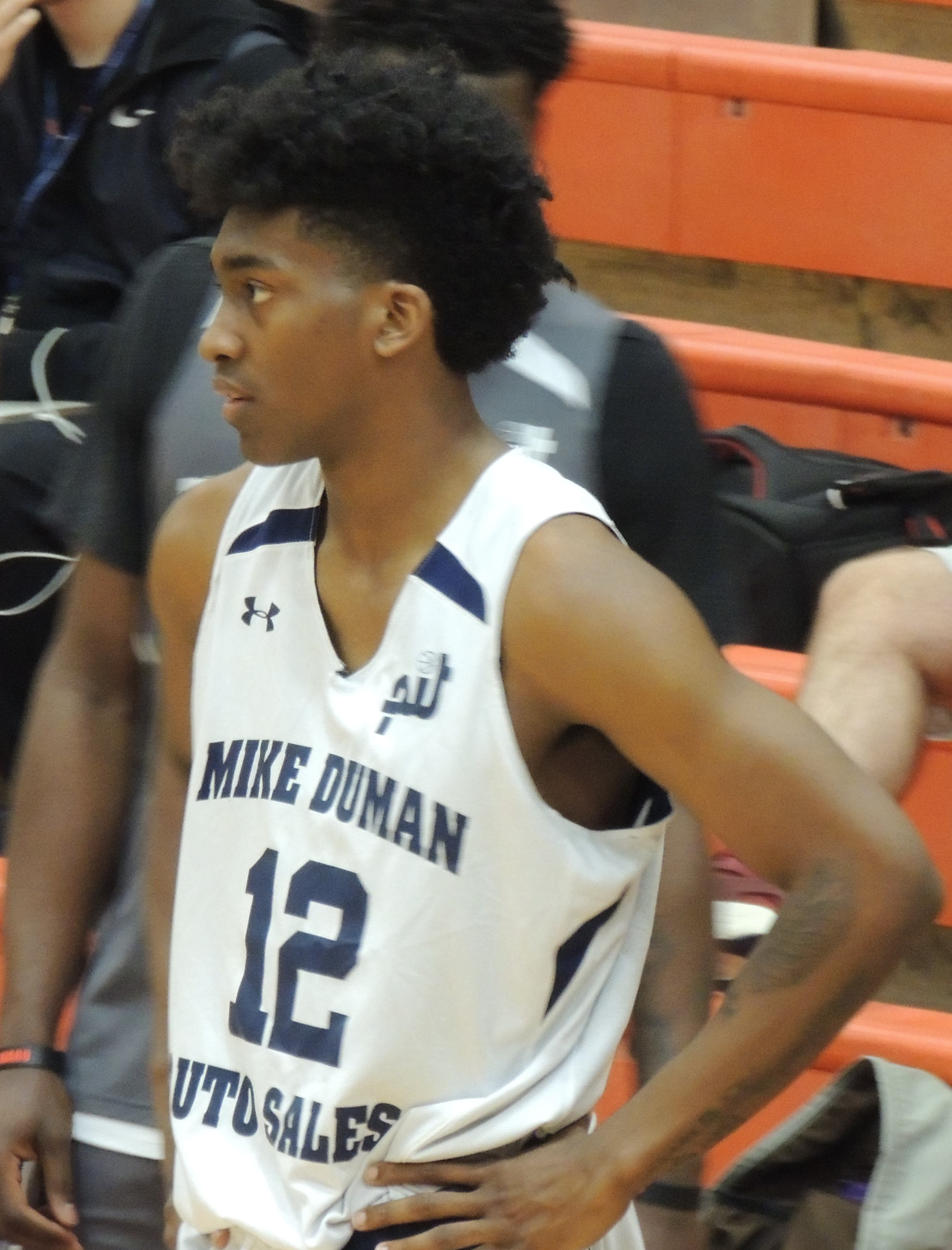 American basketball player Terance Mann of Florida State University at the 2019 Portsmouth Invitational Tournament